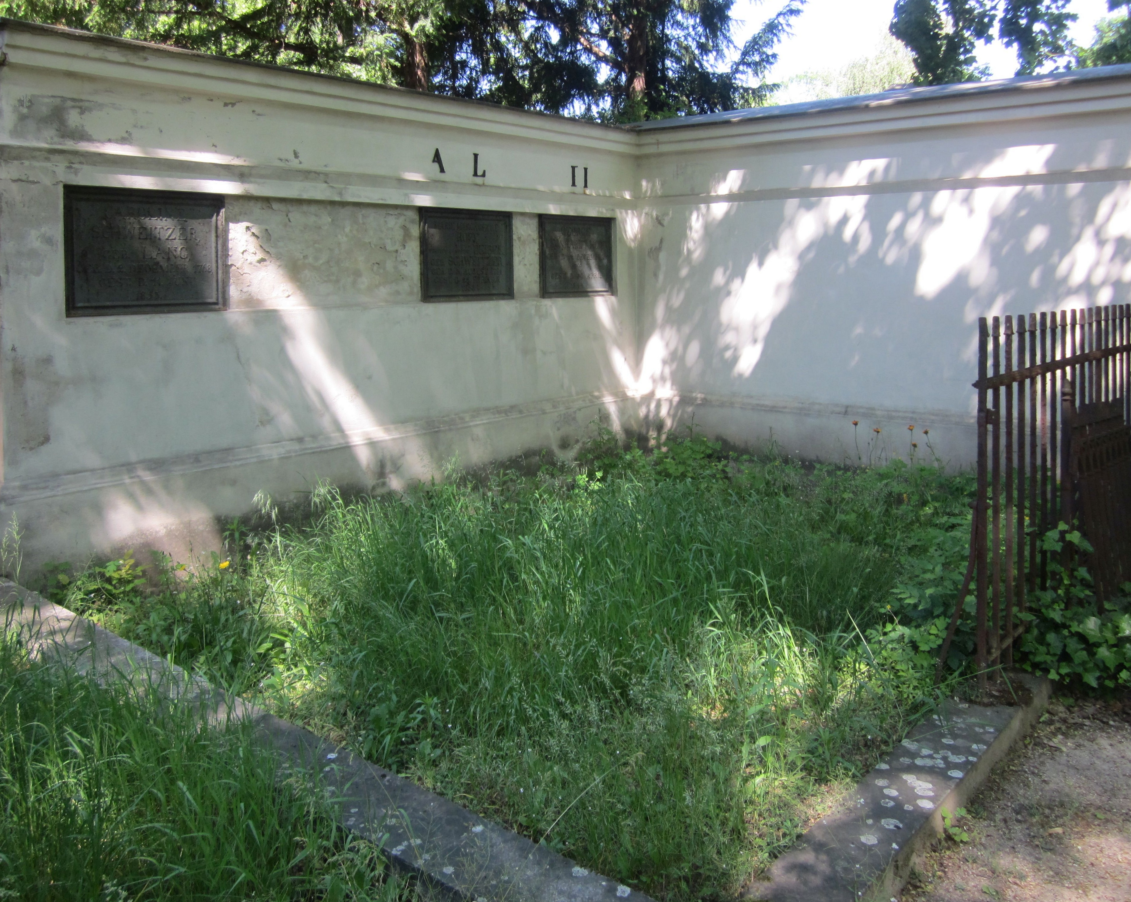 The family grave of the Hopf-Schweitzer families on Cemetery I of Trinity Church in Berlin-Kreuzberg. This is the final resting place of wine merchant and beer brewer Georg Leonhard Hopf (1799-1844), of his wife Marie Margarthe Hopf née Schweitzer wid. Deibel (1791-1858) and of Caroline Schweitzer née Lang (1768-1835), the mother of Frau Hopf.